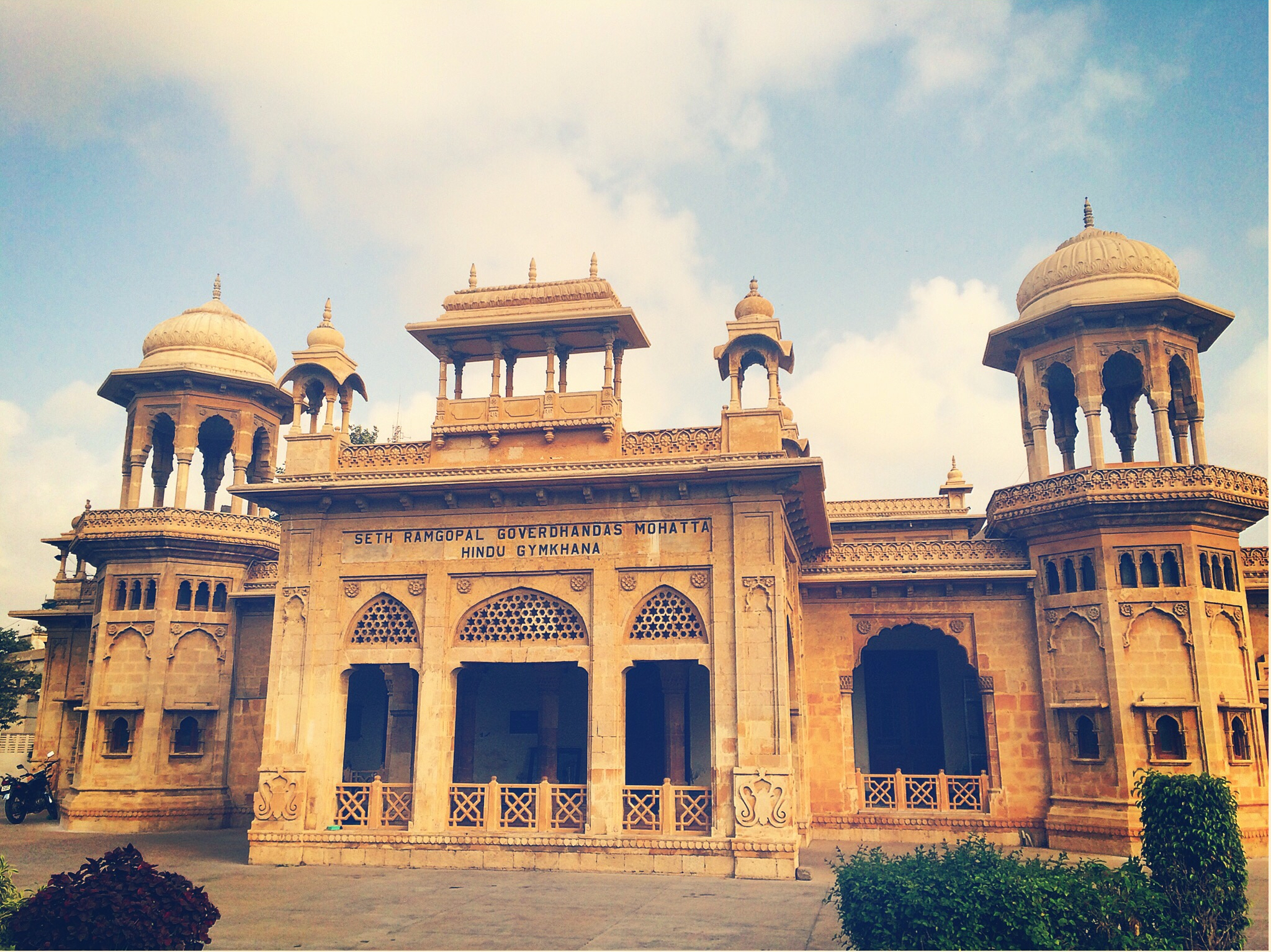 Hindu Gymkhana built in the 1920s was built in traditional mughal style. The building was formerly home to the Hindu Gymkhana now its home to NAPA (National academy for performing arts). An institute that has churned out some of the newest performing artists in the country This is a photo of a monument in Pakistan identified as the SD-P-242